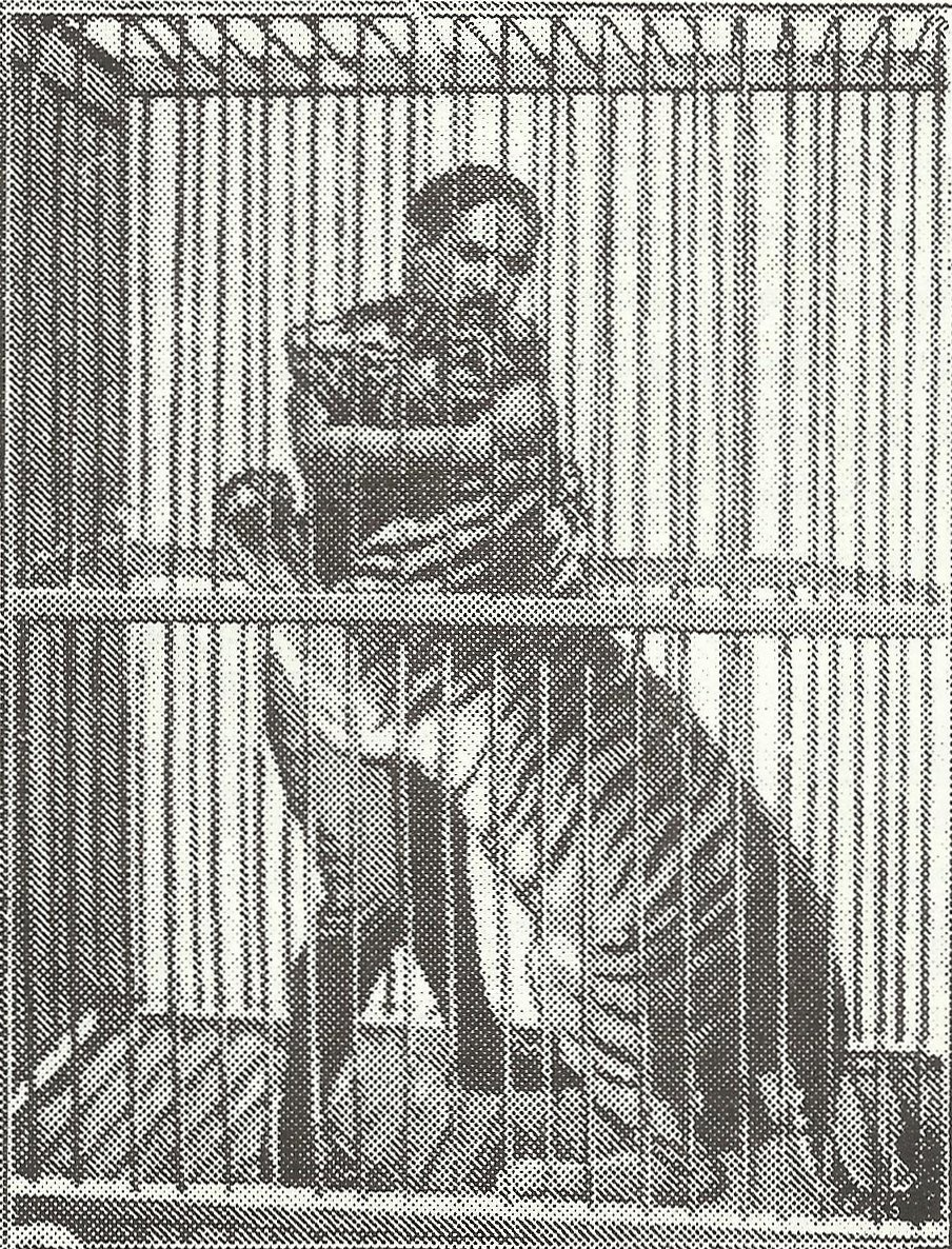 Image of Shyamakanta Banerjee (later Soham Swami) wrestling with a tiger in its cage.